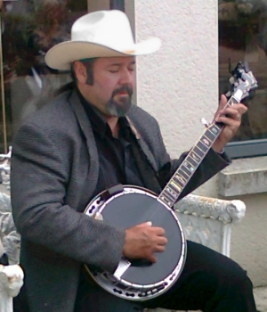 photo of Tom Hanway with his banjo